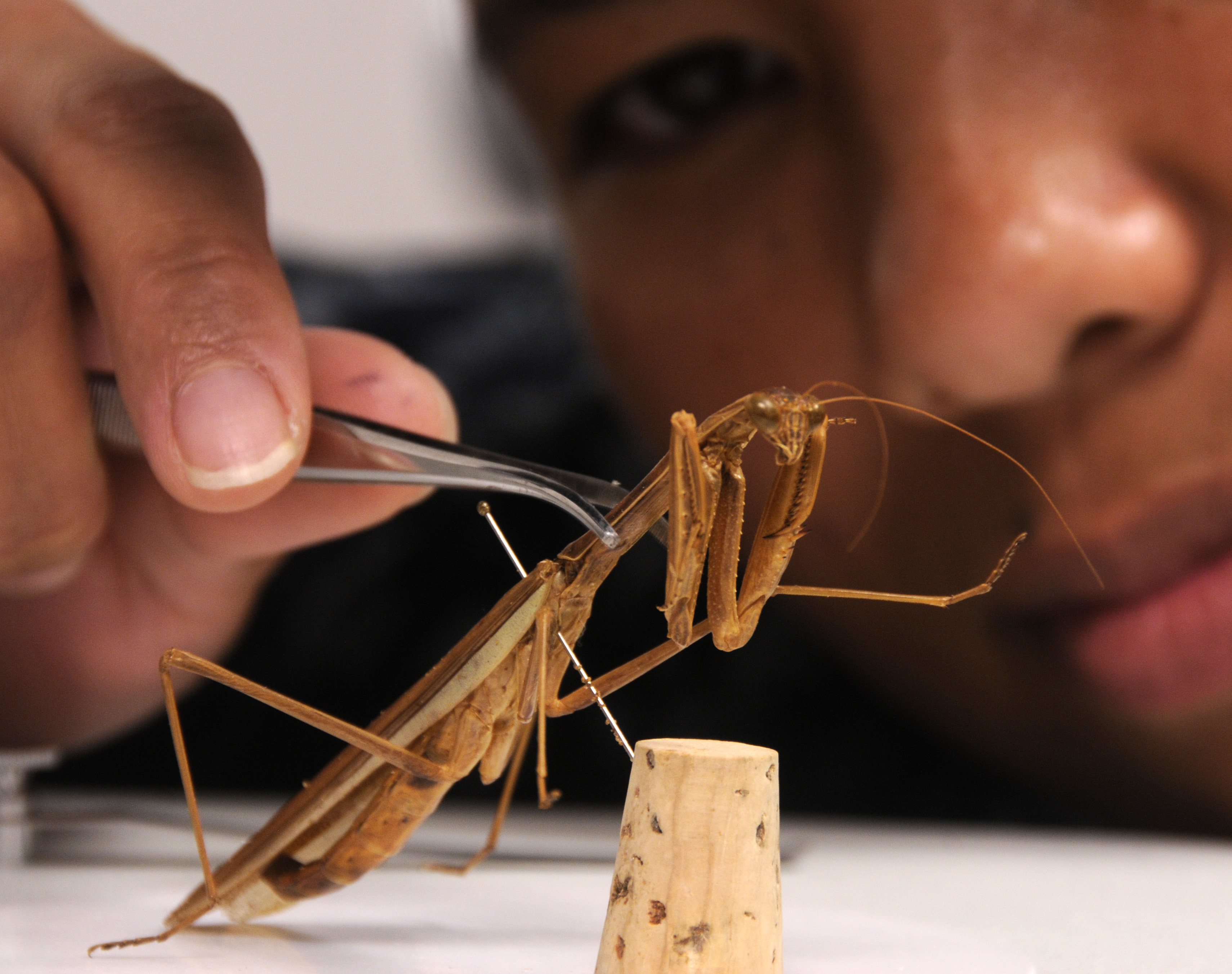 PEARL HARBOR (May 6, 2010) Hospital Corpsman 2nd Class Charity Sibal, a lab technician assigned to the entomology division of Navy Environmental and Preventive Medicine (NEPMU) 6 at Joint Base Pearl Harbor-Hickam, examines a praying mantis. Medical entomology is the study of insects, spiders, ticks and mites, collectively referred to as arthropods, and the diseases they transmit. NEPMU-6 supports operational forces and shore installations by providing services such as pest control training and uniform treatment with insect repellent. (U.S. Navy photo by Mass Communication Specialist 2nd Class Mark Logico/Released)